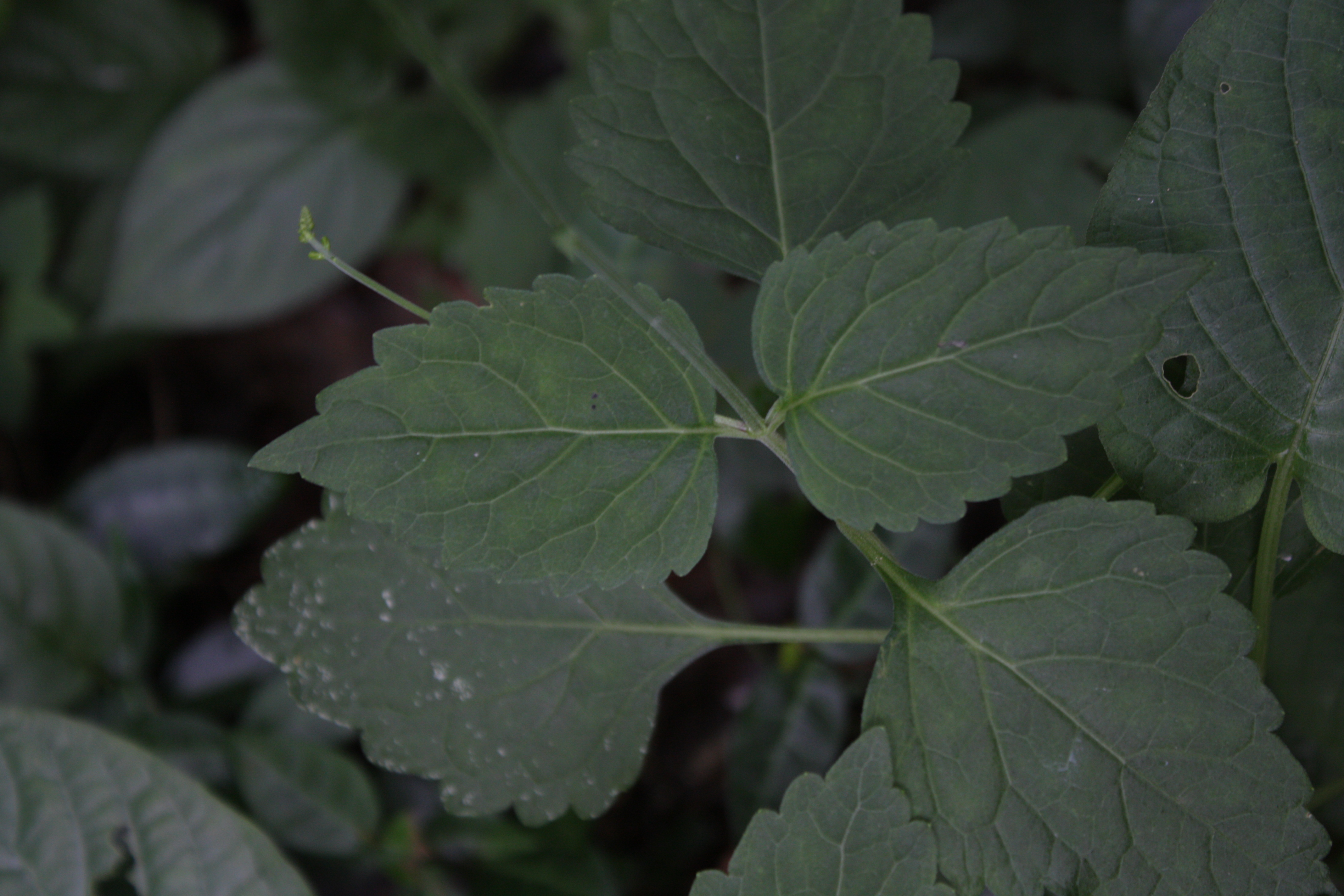 Phryma leptostachya var. asiatica